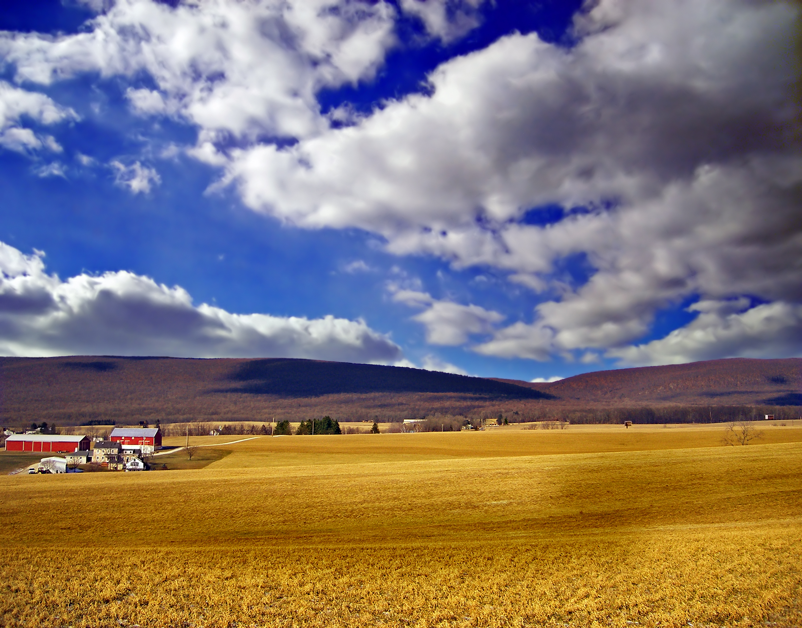 Farmstead, Windsor Township, Berks County. This scene is deceptive; the colors convey warmth, but the temperature was actually about 18°F (–8°C), with high winds and intermittent snow flurries.